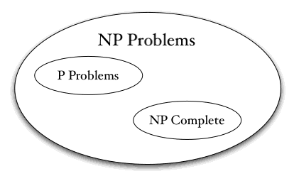 This is a diagram of complexity classes for Complexity classes P and NP.